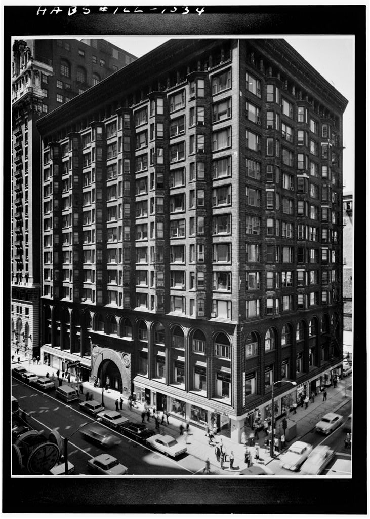 Historic American Buildings Survey Cervin Robinson, Photographer July 1963 FROM NORTHEAST - Chicago Stock Exchange Building, 30 North LaSalle Street, Chicago, Cook County, IL